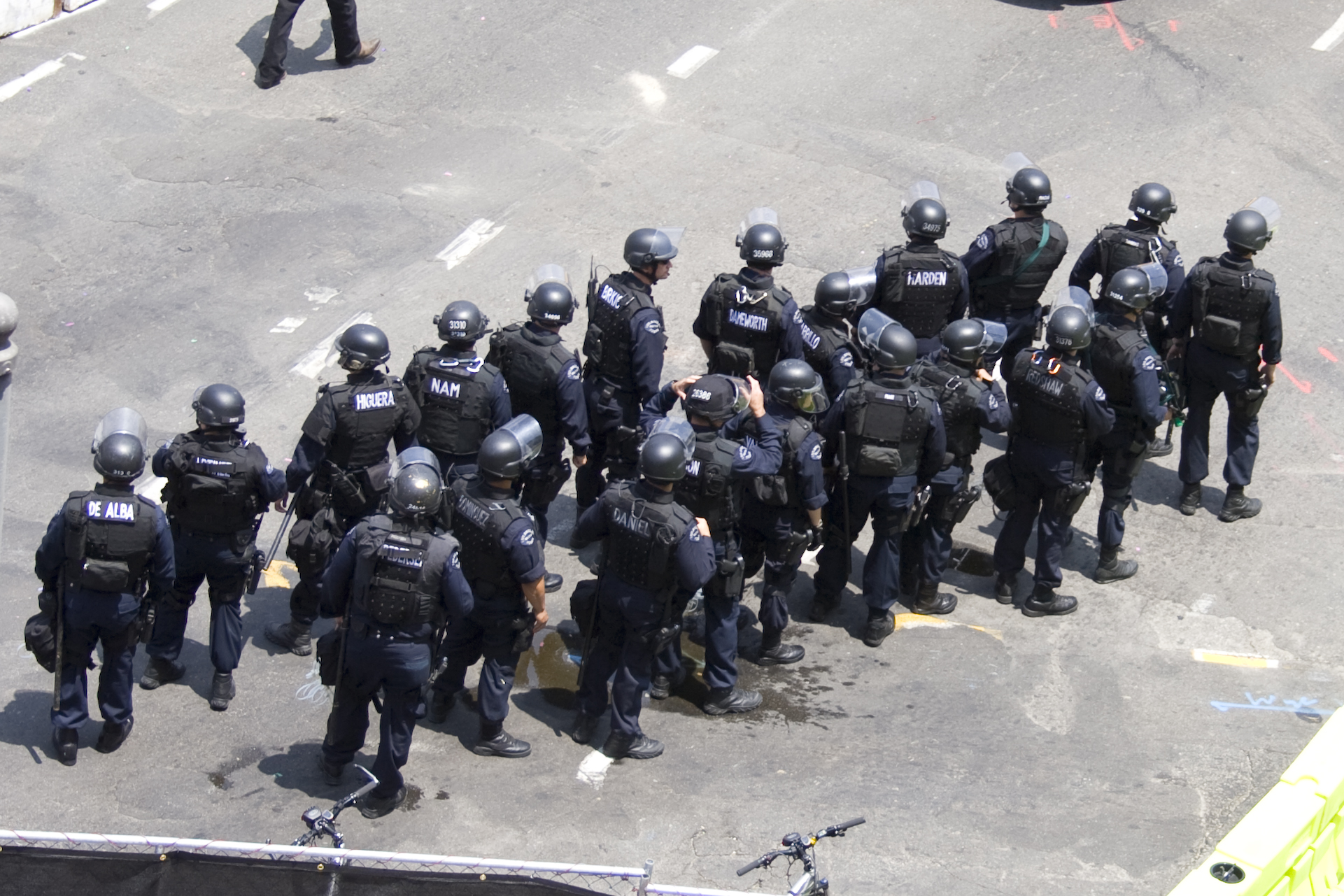 A large group of LAPD officers in tactical gear at the Lakers parade.